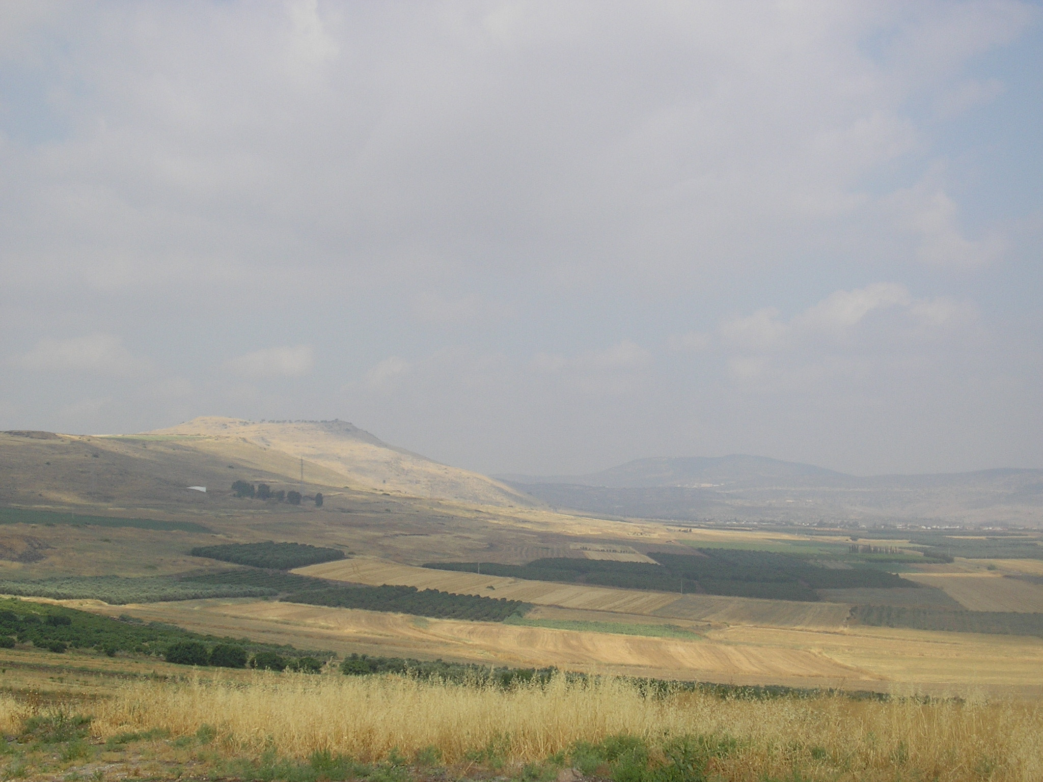 Hittin, Israel. site of the famous battle between the moslems and the crusaders. קרני חיטין, צולם מכיוון מושב מצפה